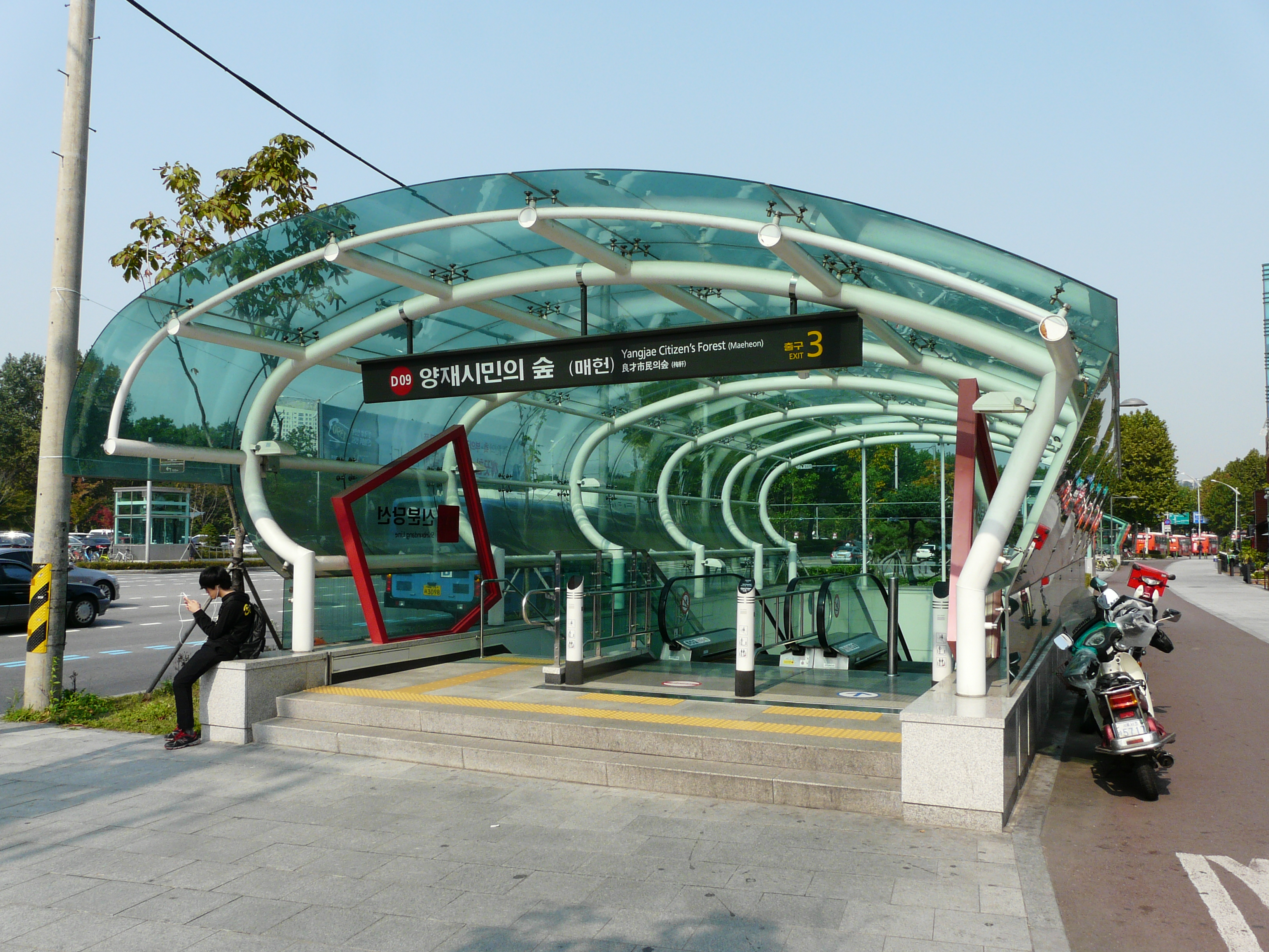 The no.3 entrance of Yangjae Citizen's Forest Station, Sinbundang Line